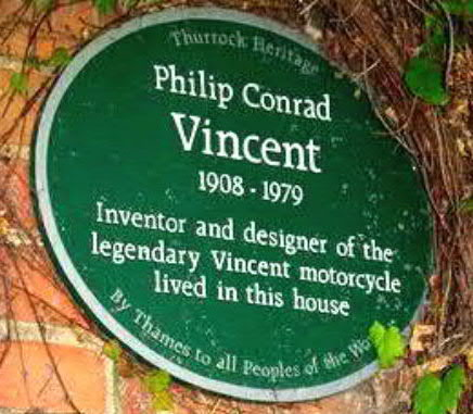 Thurrock Green Plaque on the side of High House, Horndon-on-the-Hill, Essex